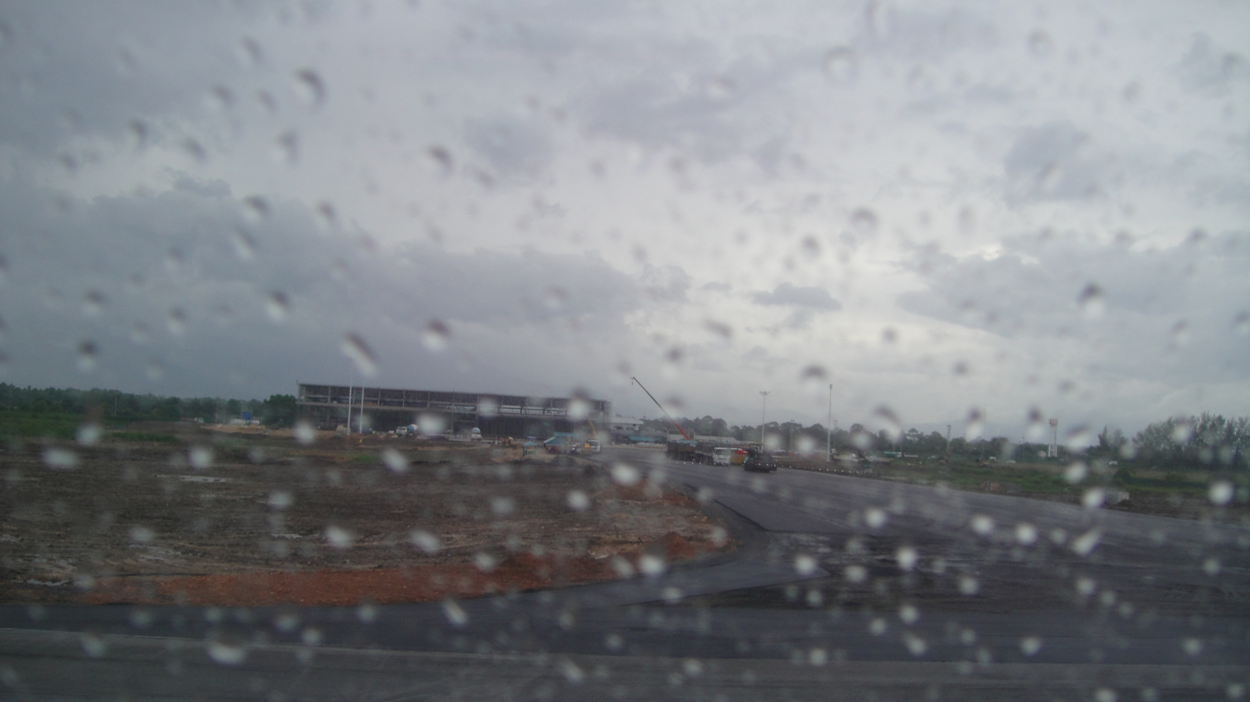 Chevron Air Based